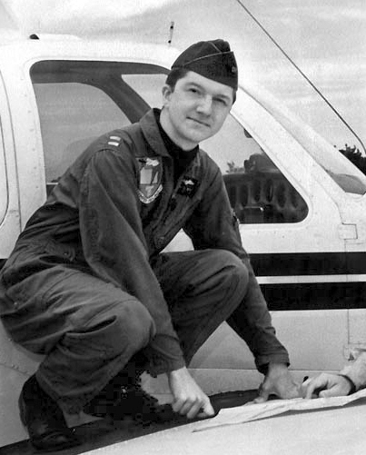 A Civil Air Patrol air search and rescue (ASR) pilot (CAPT B.C. Cooper, Sq 103, Gp 10, 31st Wing) in 1970.